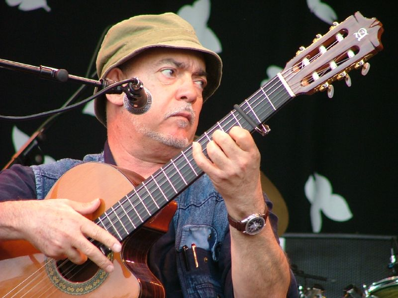 Iraqui singer-songwriter Ilham Al Madfai performing in Glastonbury, England, 2005